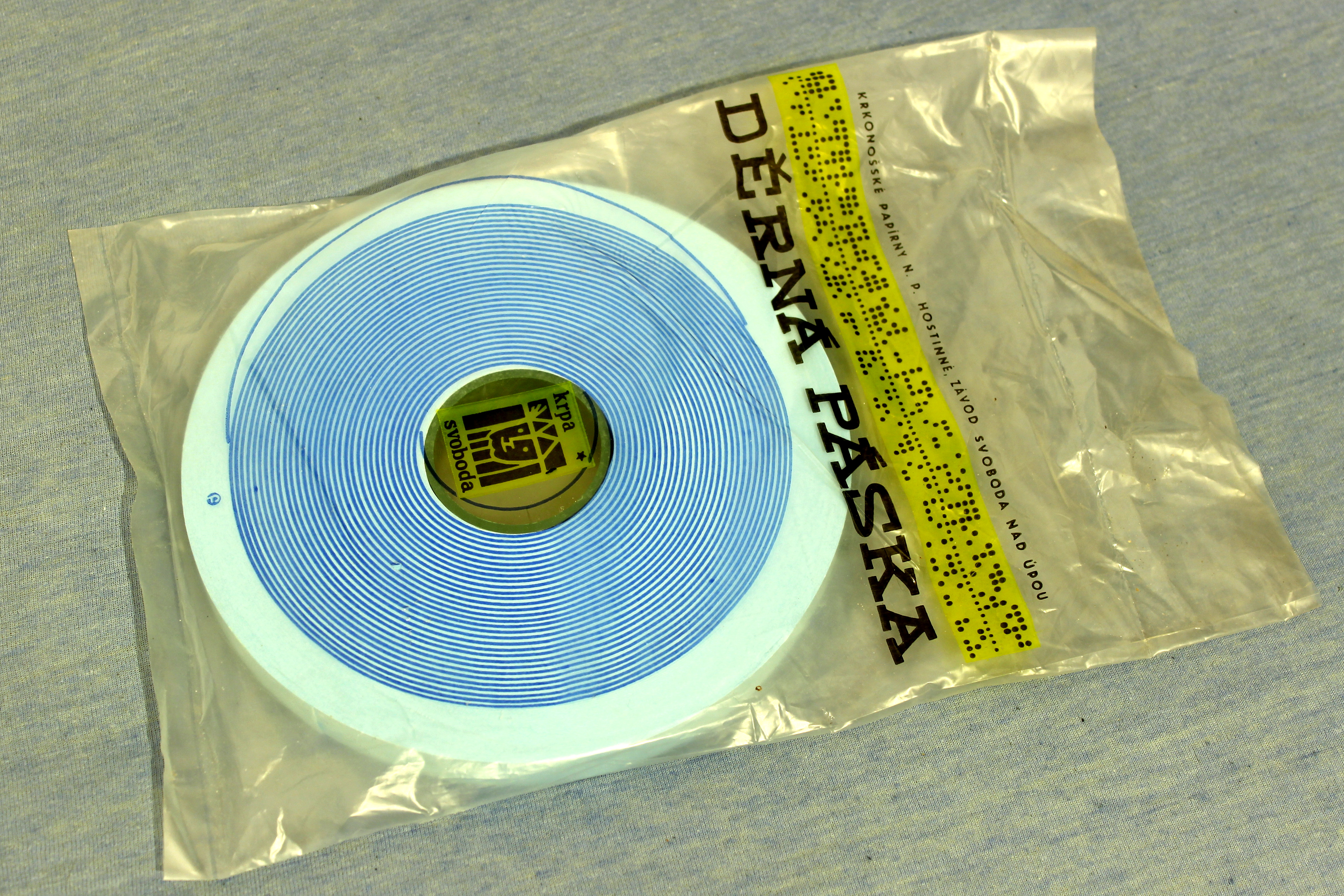 Punched tape